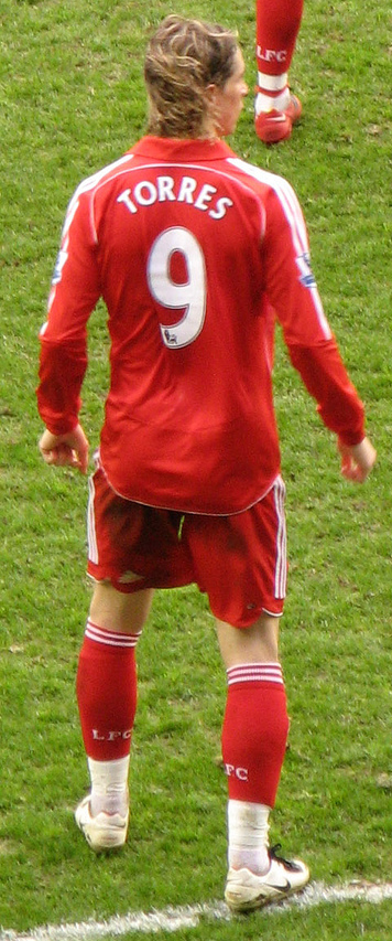 Fernando Torres. Image cropped from original at flickr.